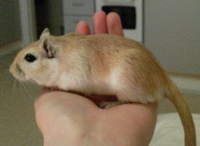 A Dark Eyed Honey gerbil on hand.